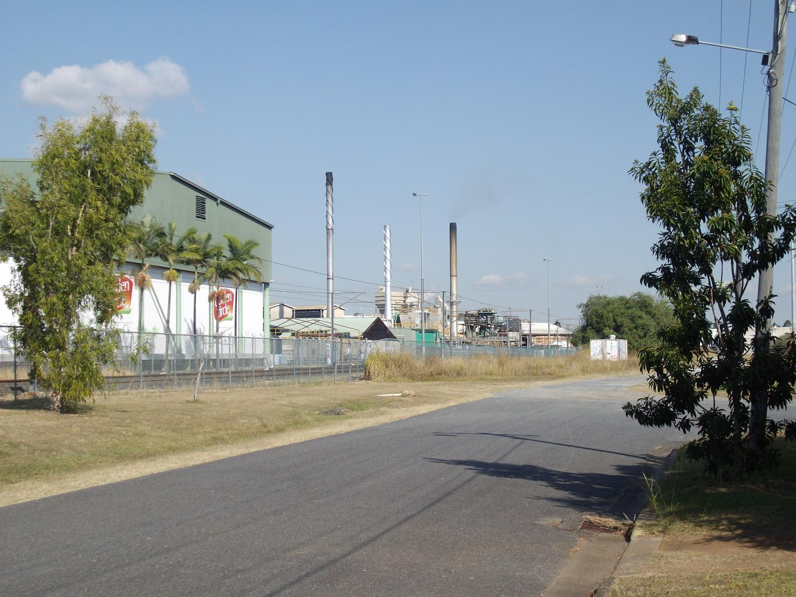 Golden Circle factory in Northgate, Queensland.